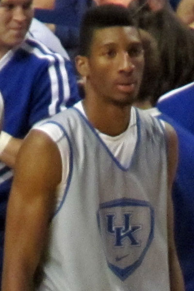 Marcus Lee in Kentucky's 2013 Blue-White scrimmage game at Rupp Arena in Lexington, Kentucky